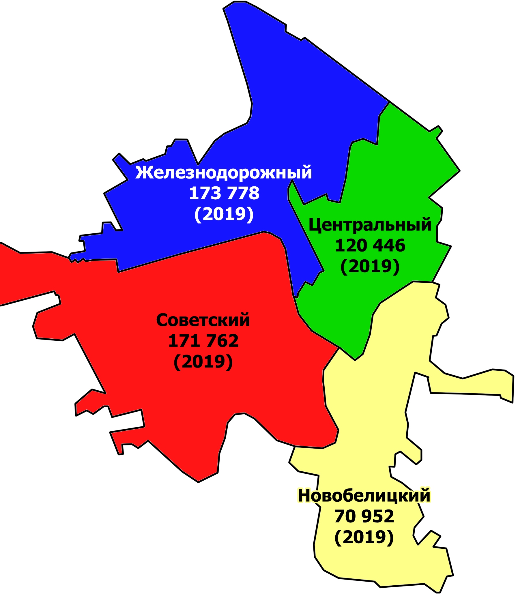 Districts of Homieĺ (Belarus)